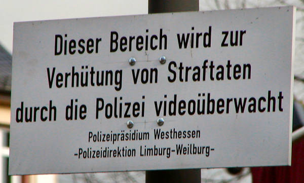 Bloomer, areaway of train station in Limburg an der Lahn